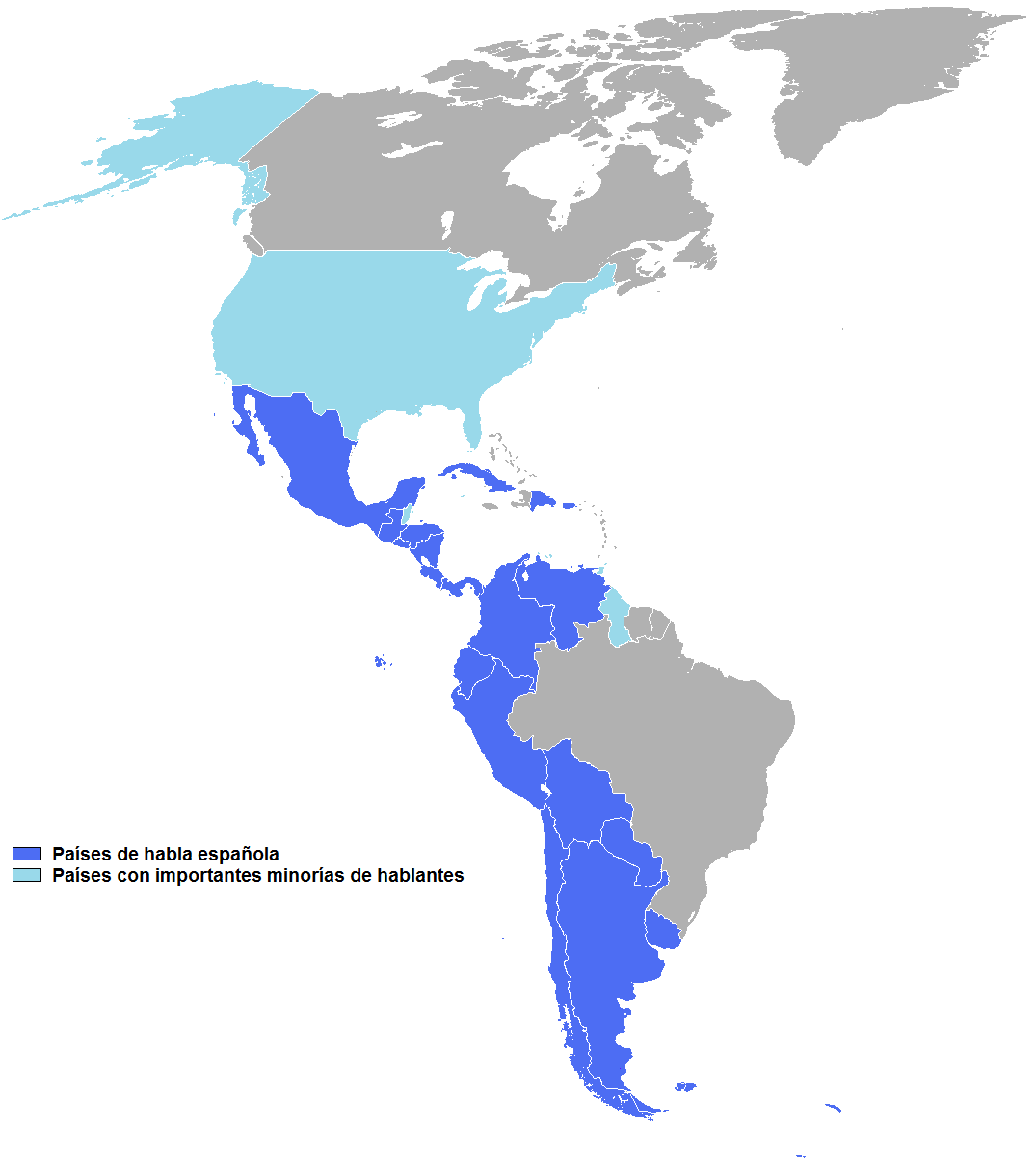 Spanish language in America.